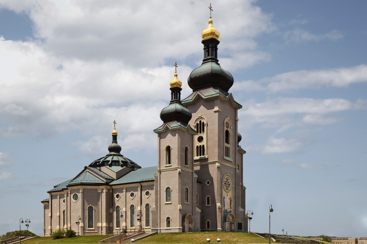 This Cathedral is the centrepiece of Cathedraltown North of Toronto. Started construction in 1984 by Stephen B Roman, it was founded as a church for Slovak Catholics. Built on rural land, it is now completely surrounded by newly constructed residences that seem reminiscent of Slovak or Russian city architectures. The gleam of the sun on the polished golden domes an be seen for miles up Highway 404